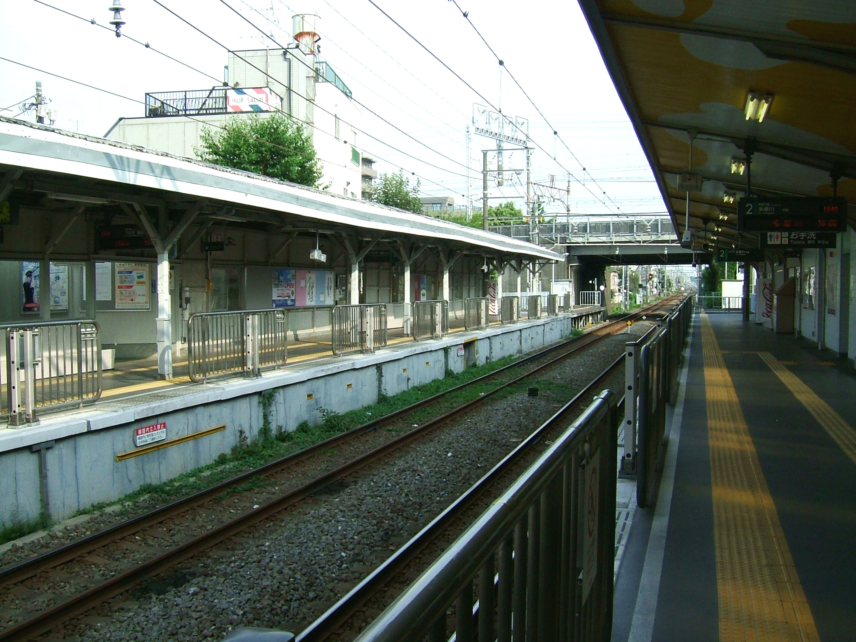 Numabe Station platform (Tōkyū Tamagawa Line)